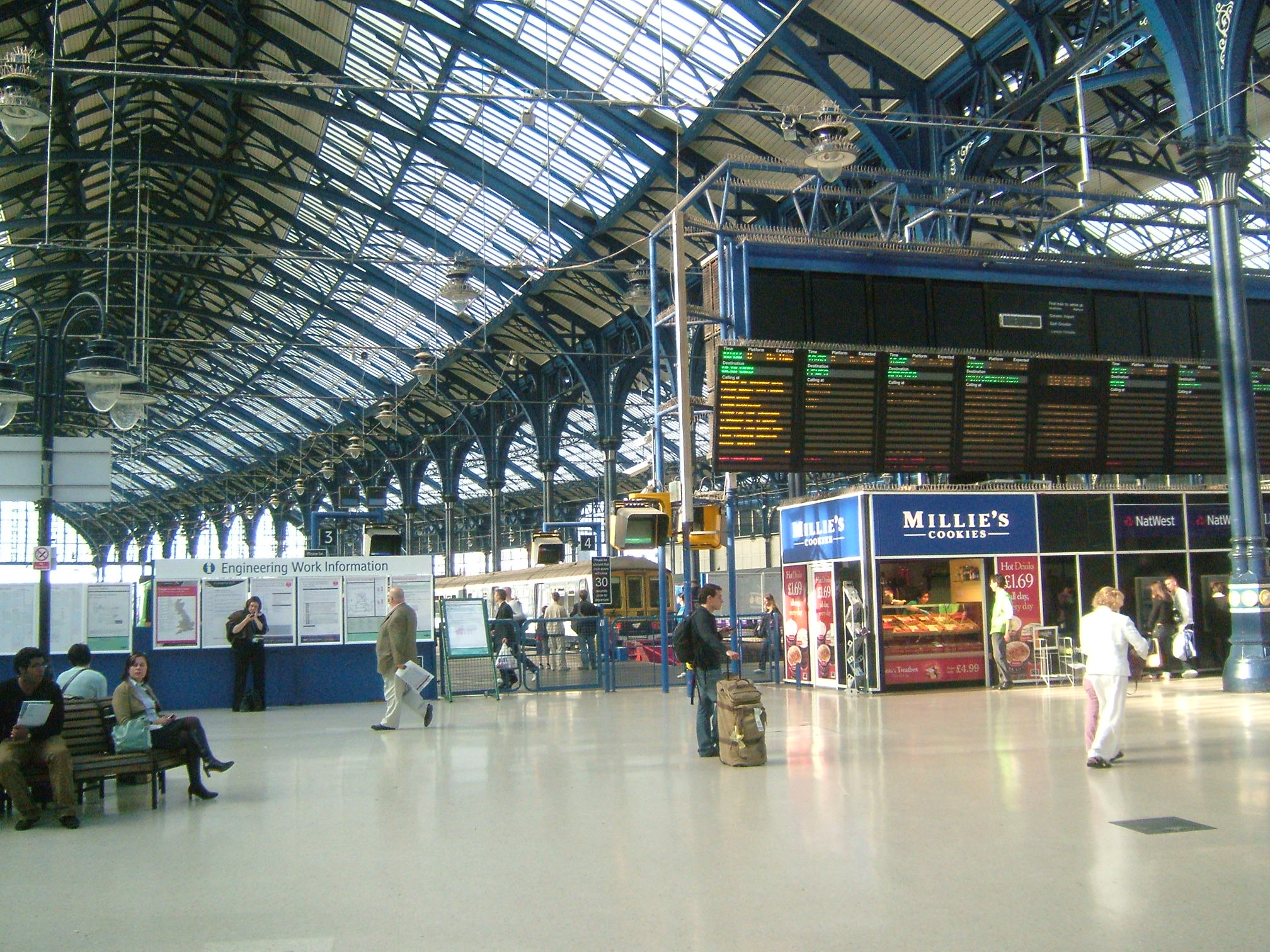 Brighton railway station, concourse.Indicator boards. Platform 4. Cast Iron and glass roof.